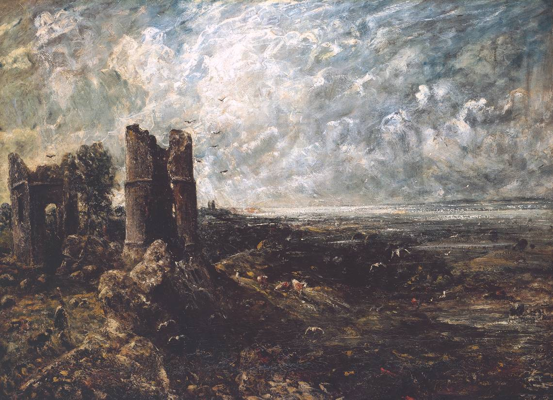 Sketch for 'Hadleigh Castle' circa 1828-9 John Constable 1776-1837 Dimensions Support: 1226 x 1673 mm, frame: 1507 x 1951 x 153 mm Purchased 1935